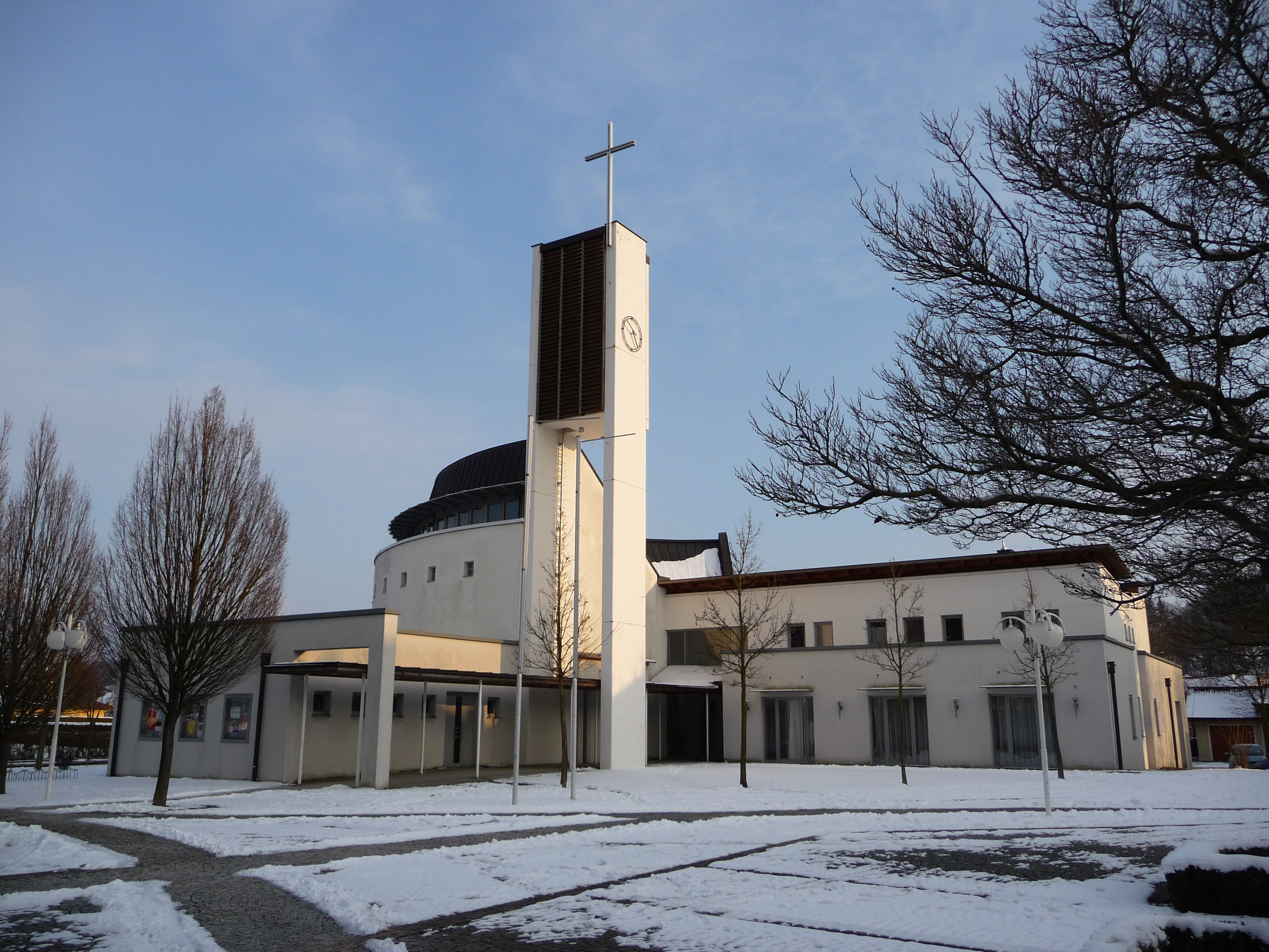 Exterior of the church in Schlüsslberg, Grieskirchen parish.